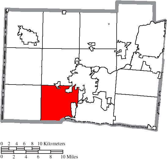 Map of the municipal and township boundaries of Butler County, Ohio, United States, as of the 2000 census, with the location of Ross Township highlighted. Township borders are shown only in unincorporated areas in order to differentiate incorporated and unincorporated areas more clearly.